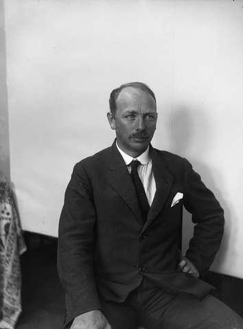 Bernhard Folkestad (1879–1933) Alternative names Bernhard Dorotheus FolkestadDescriptionNorwegian writer and painterDate of birth/death 13 June 1879 9 March 1933Location of birth/death London OsloWork location Oslo; EnglandAuthority control : Q2596766 VIAF: 421149066553265601364 ULAN: 500108632 Open Library: OL2430398A KulturNav: d603e5f9-c15c-4adb-a4ad-9ddab1ab678b RKD: 28483 creator QS:P170,Q2596766